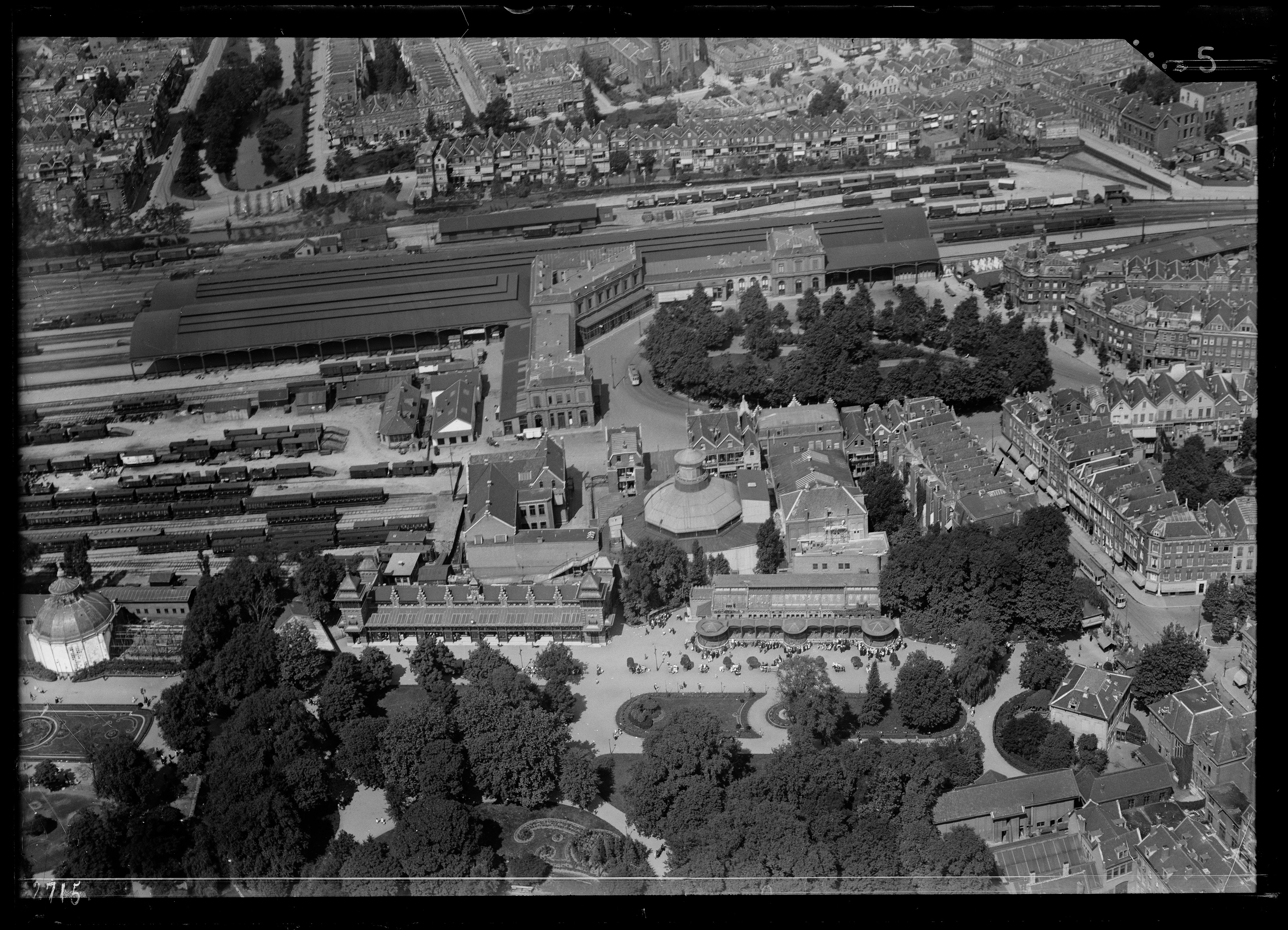 Aerial photograph of the railway station Rotterdam Delftsche Poort, The Netherlands